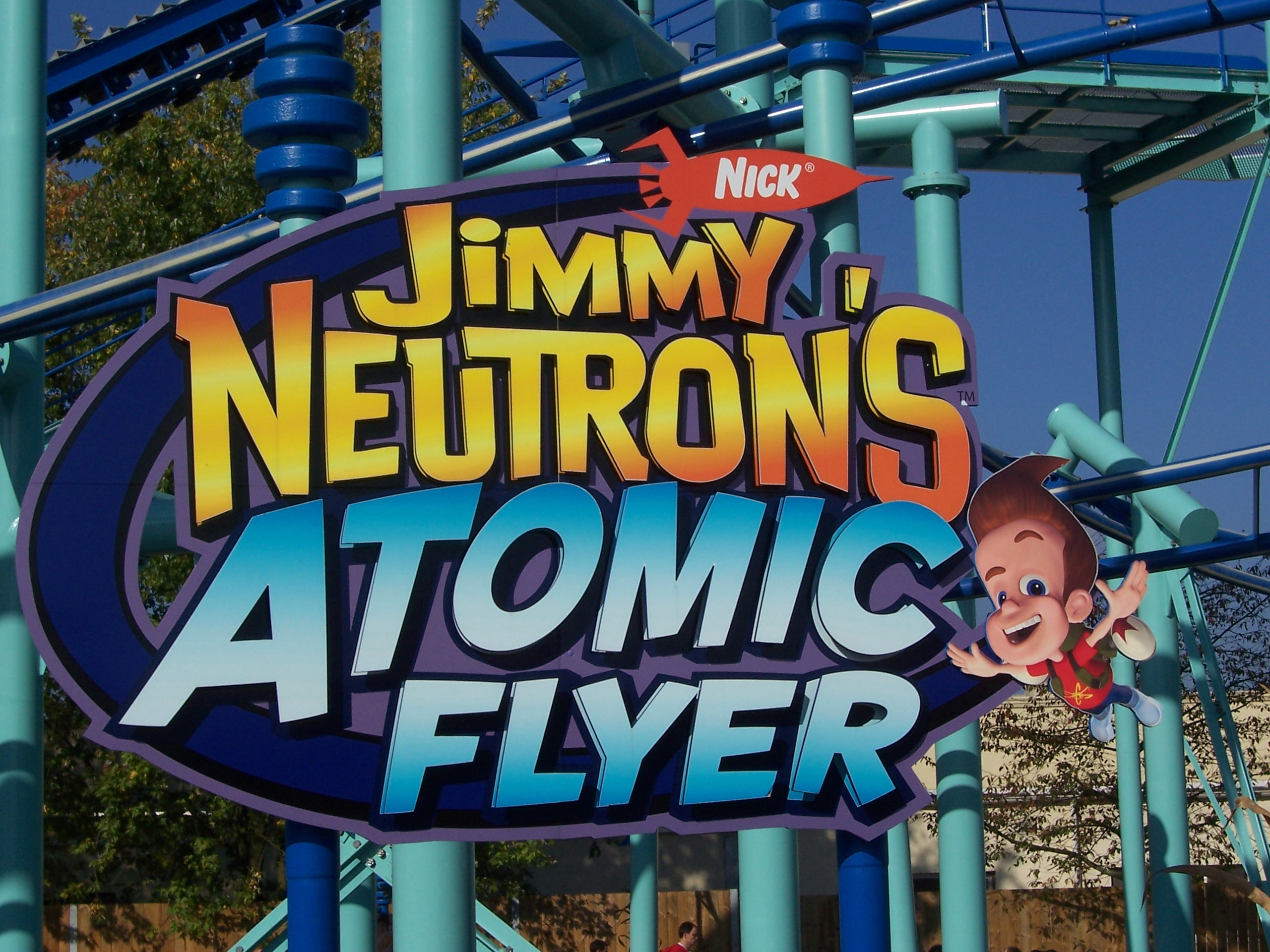 The entrance of the junior coaster Jimmy Neutron's Atomic Flyer at Movie Park Germany.